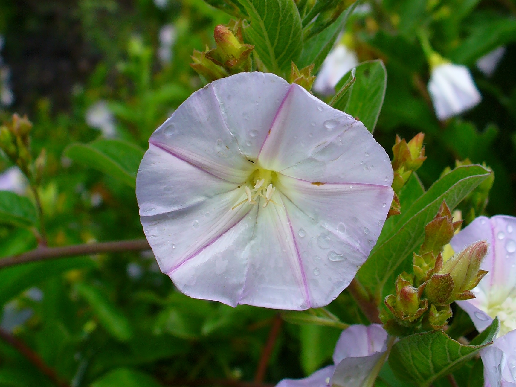 Canary Bindweed; flower; El Paso, La Palma, Canary Islands, Spain